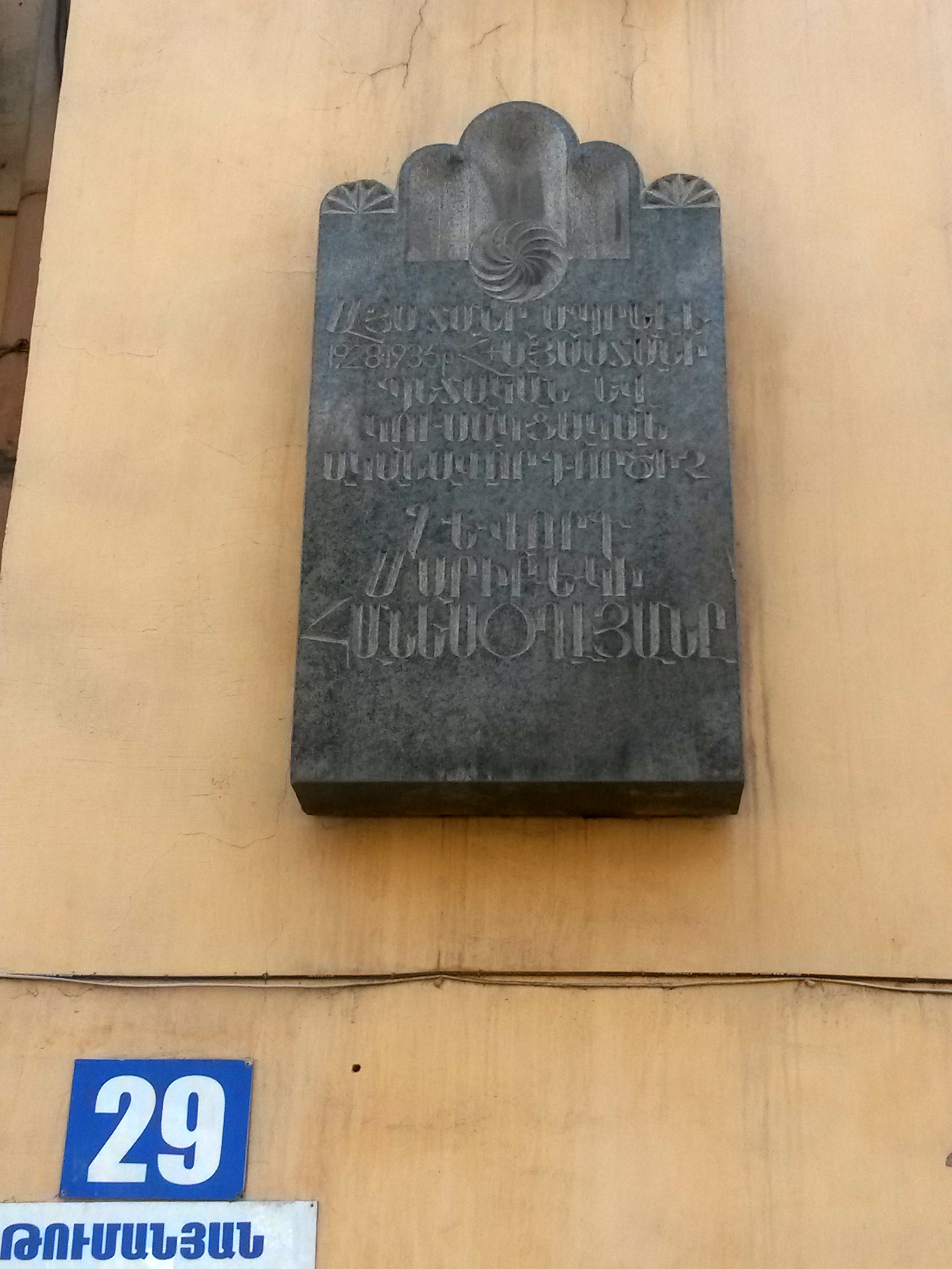 Gevorg Hanesoghlyan's plaque on Toumanian street Yerevan